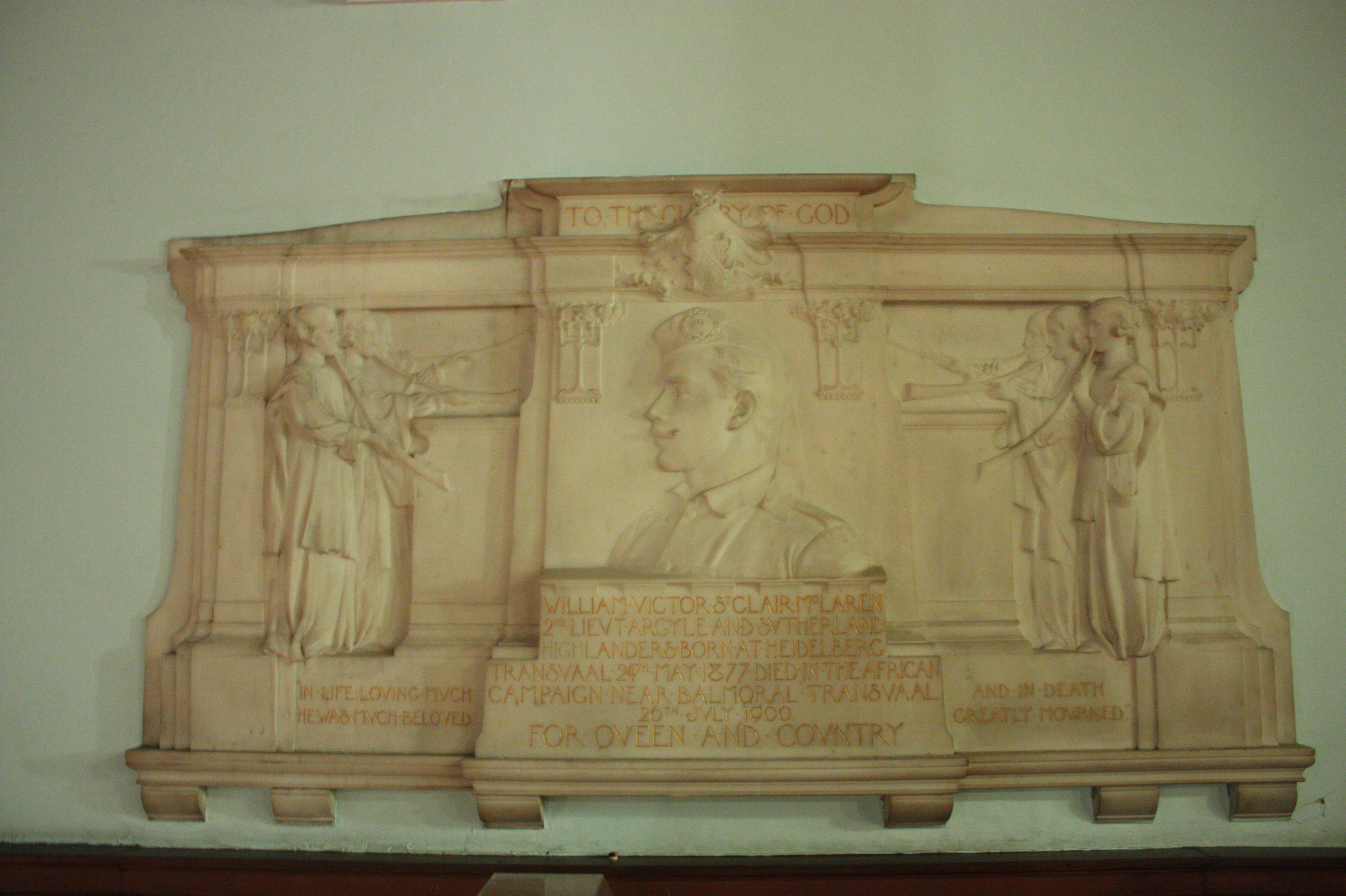 McLaren Memorial in St Cuthberts, Edinburgh by George Frampton